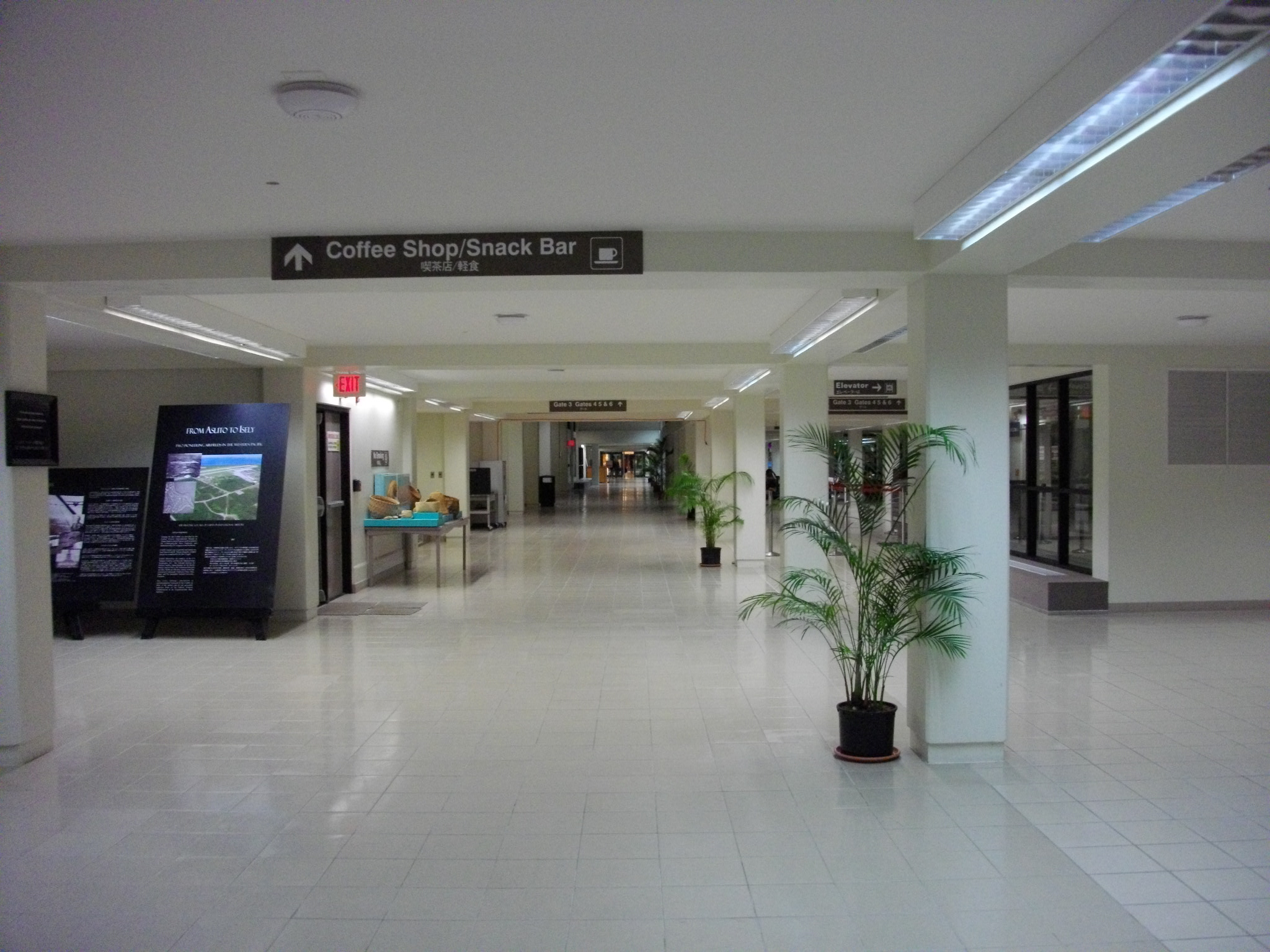 Saipan International Airport Restricted Area